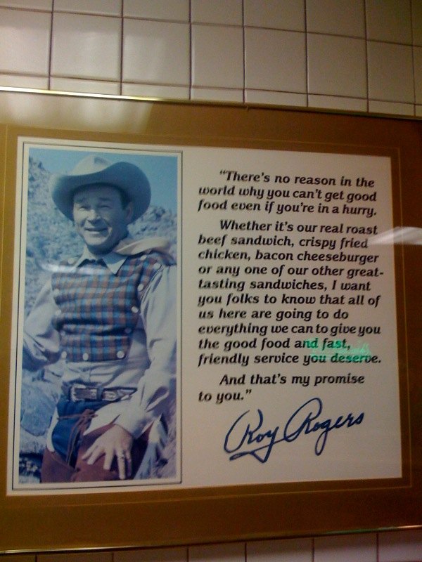 Photo of a sign hanging in a Roy Rogers restaurant in New York City